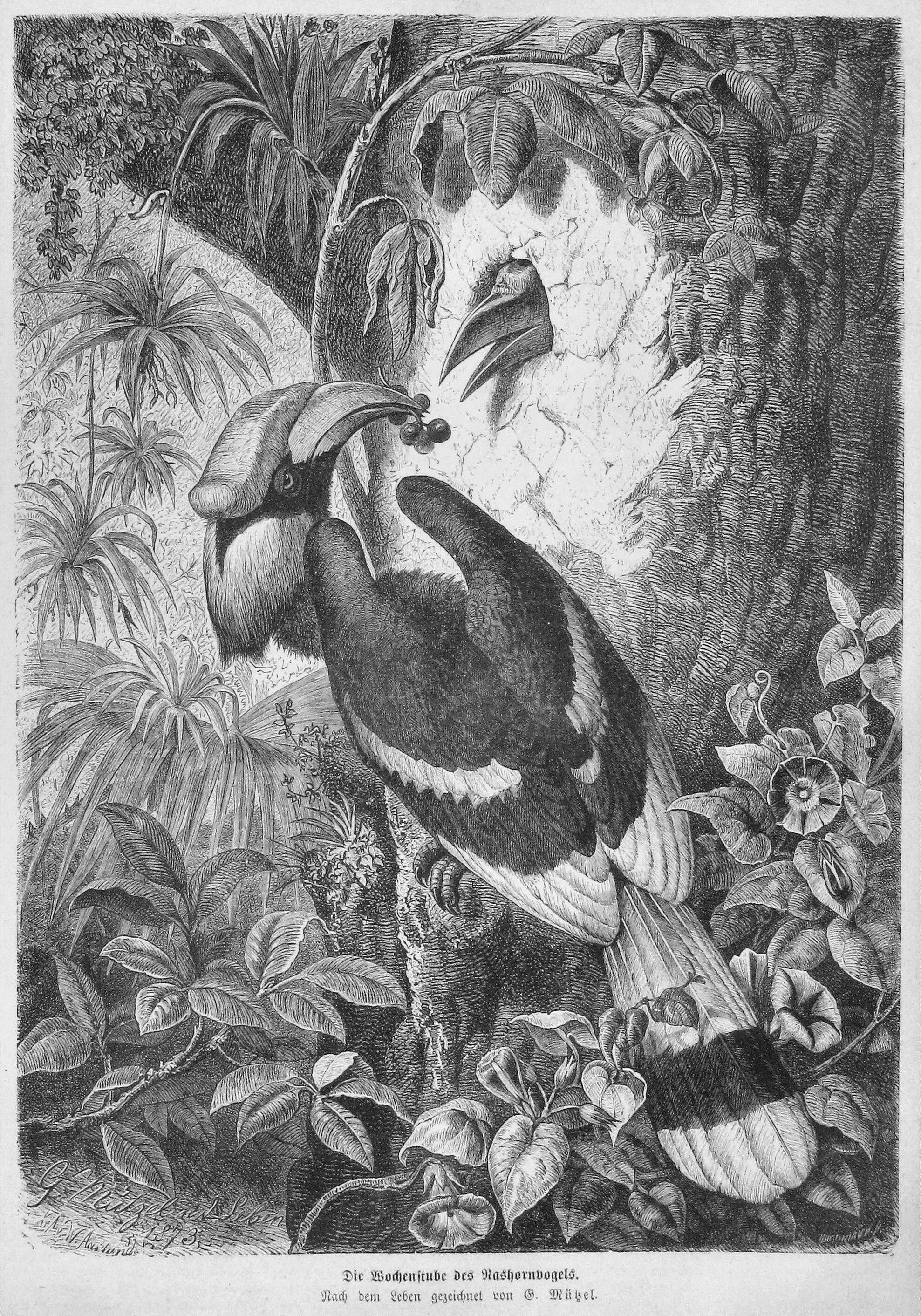 caption: "Die Wochenstube des Nashornvogels. Nach dem Leben gezeichnet von G. Mützel."